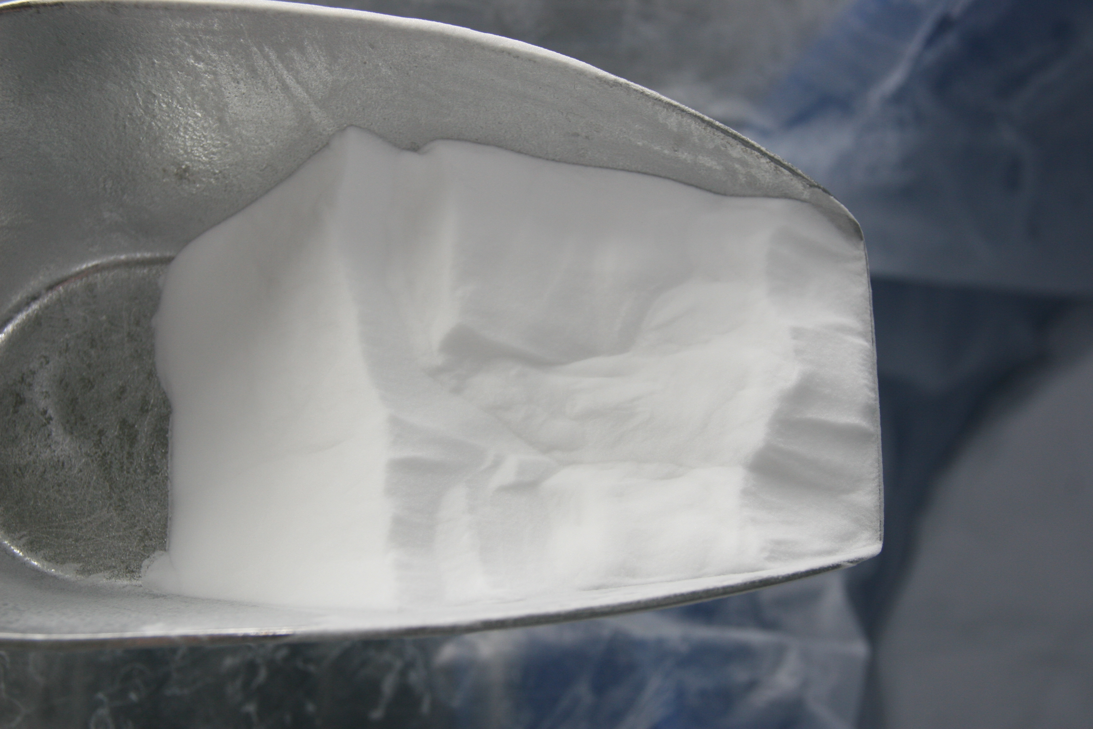 Powdery silicat for column chromatography